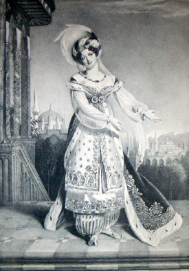 Giuseppina Ronzi de Begnis as Fatima in Pietro L' Eremita (an oratorio version of Gioacchino Rossini's Mose in Egitto), King's Theatre, London, by A E Chalon.